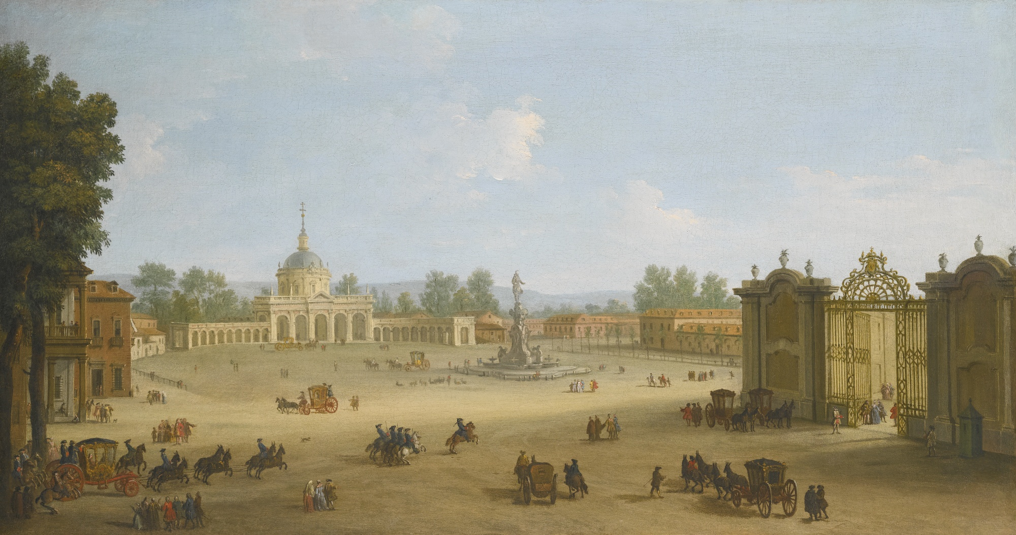 ARANJUEZ, VIEW OF LA IGLESIA Y LA PLAZA DE SAN ANTONIO